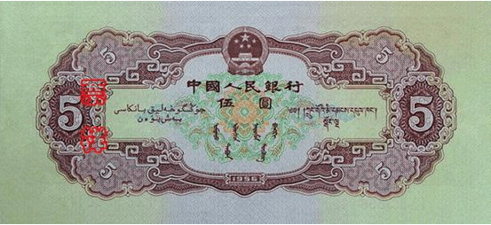 Back of second series 5 yuan renminbi (version 2)